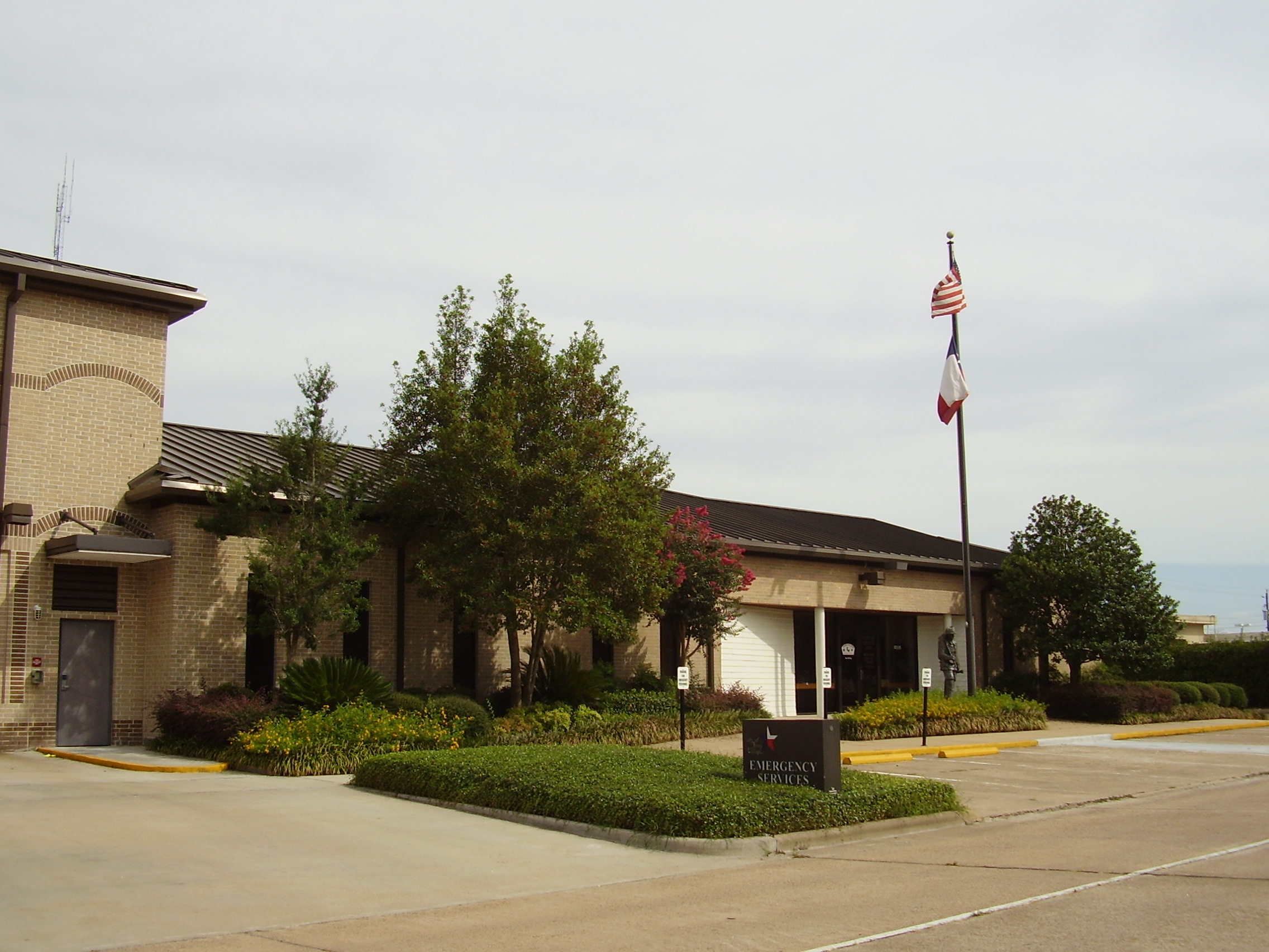 Jersey Village, Texas Emergency Services